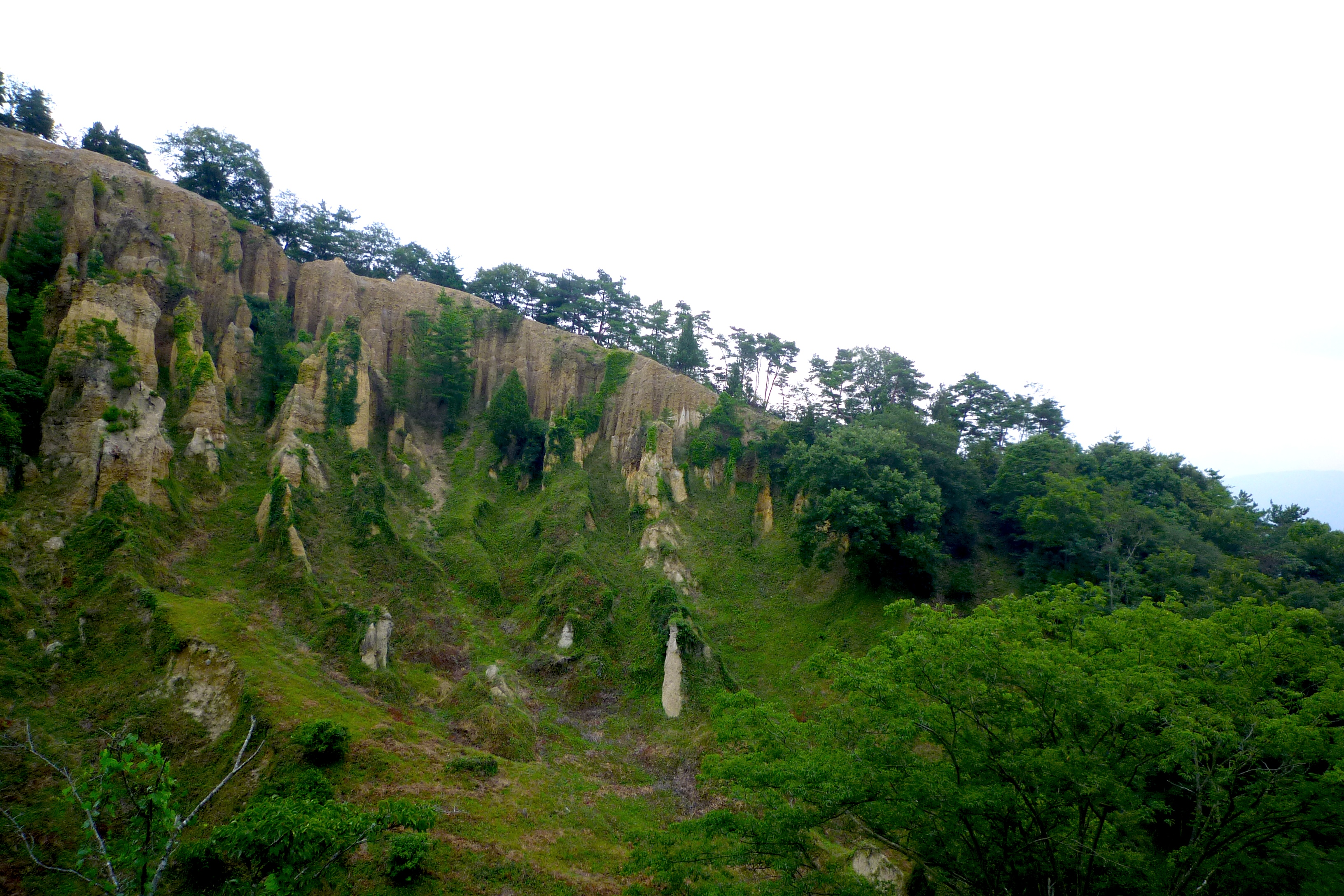 Dochū-Kōtsu Prefectural Natural Park (土柱高越県立自然公園 Dochū-Kōtsu kenritsu shizen kōen) is a Prefectural Natural Park in northern Tokushima Prefecture, Japan. Established in 2005, the park encompasses a stretch of the Yoshino River, Mount Kōtsu (高越山), the temple of Kōtsu-ji (高越寺) and the earth pillars of Awa-no-Dochū (阿波の土柱). This is Awa-no-Dochu in the day time.